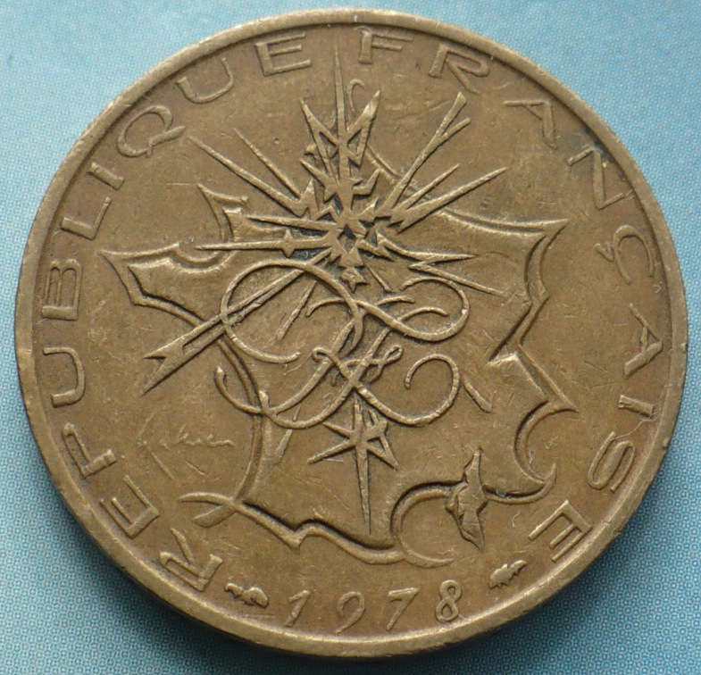 France 10 francs 1978